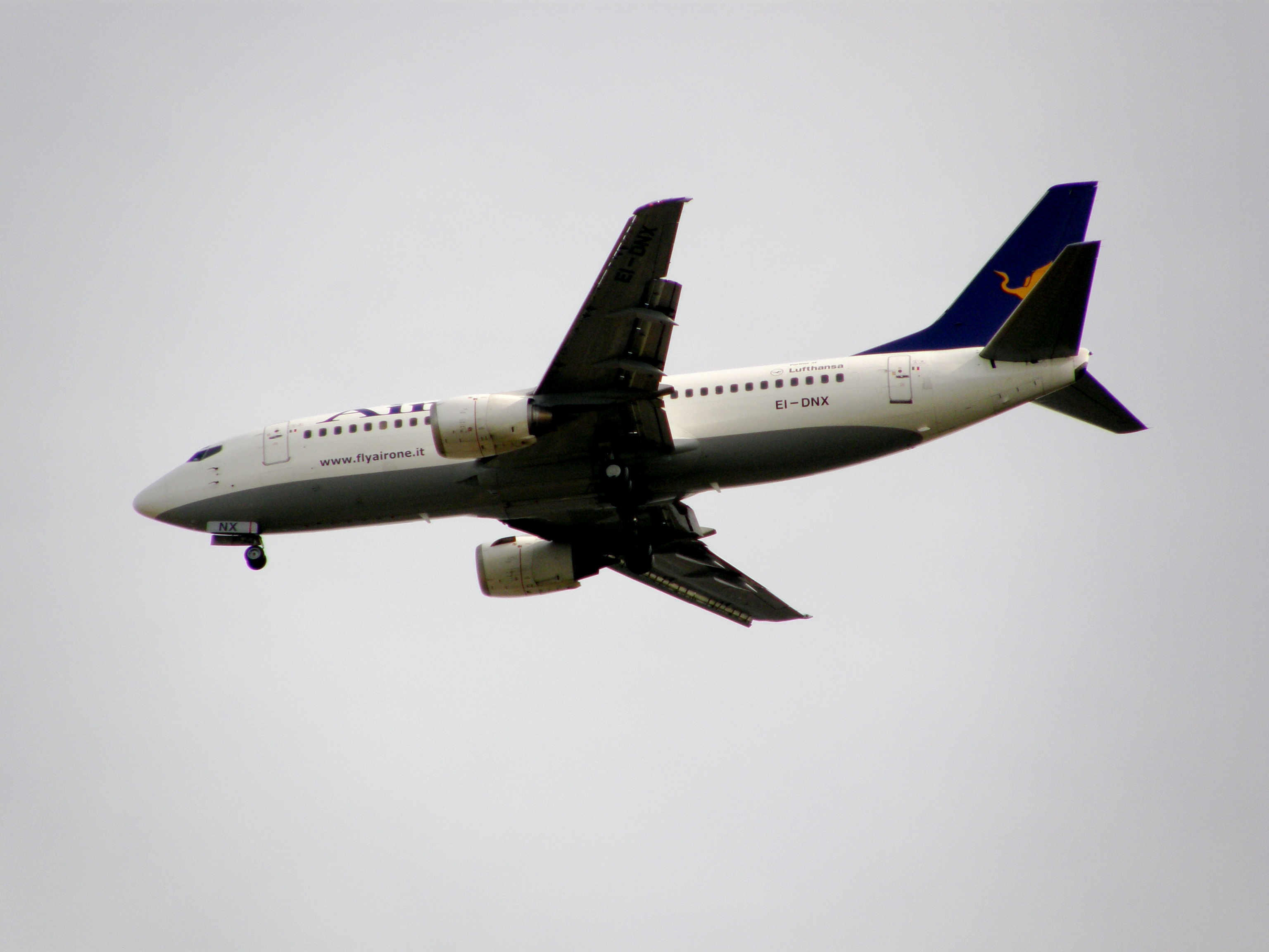 An Air One Boeing 737-31S landing at Fiumicino Airport, Rome, Italy, viewed from Ostia Antica